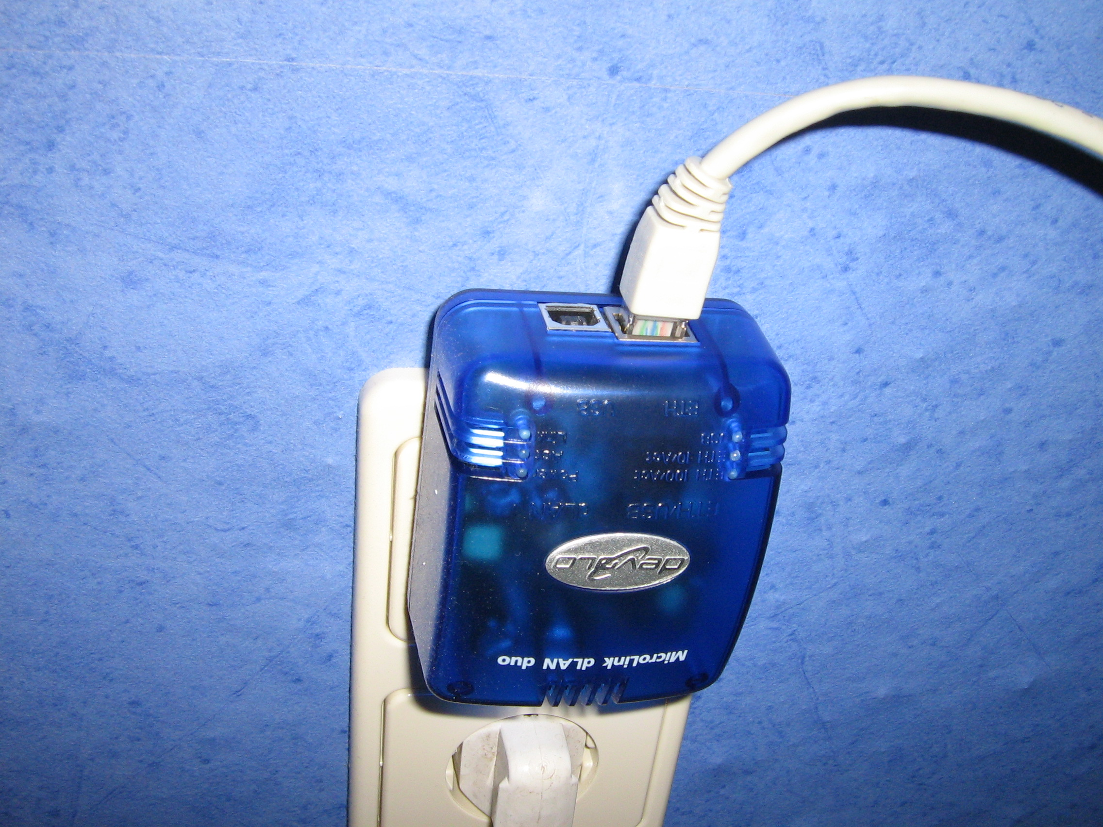 devolo MicroLink dLAN duo, a PLC-adaptor from devolo AG.